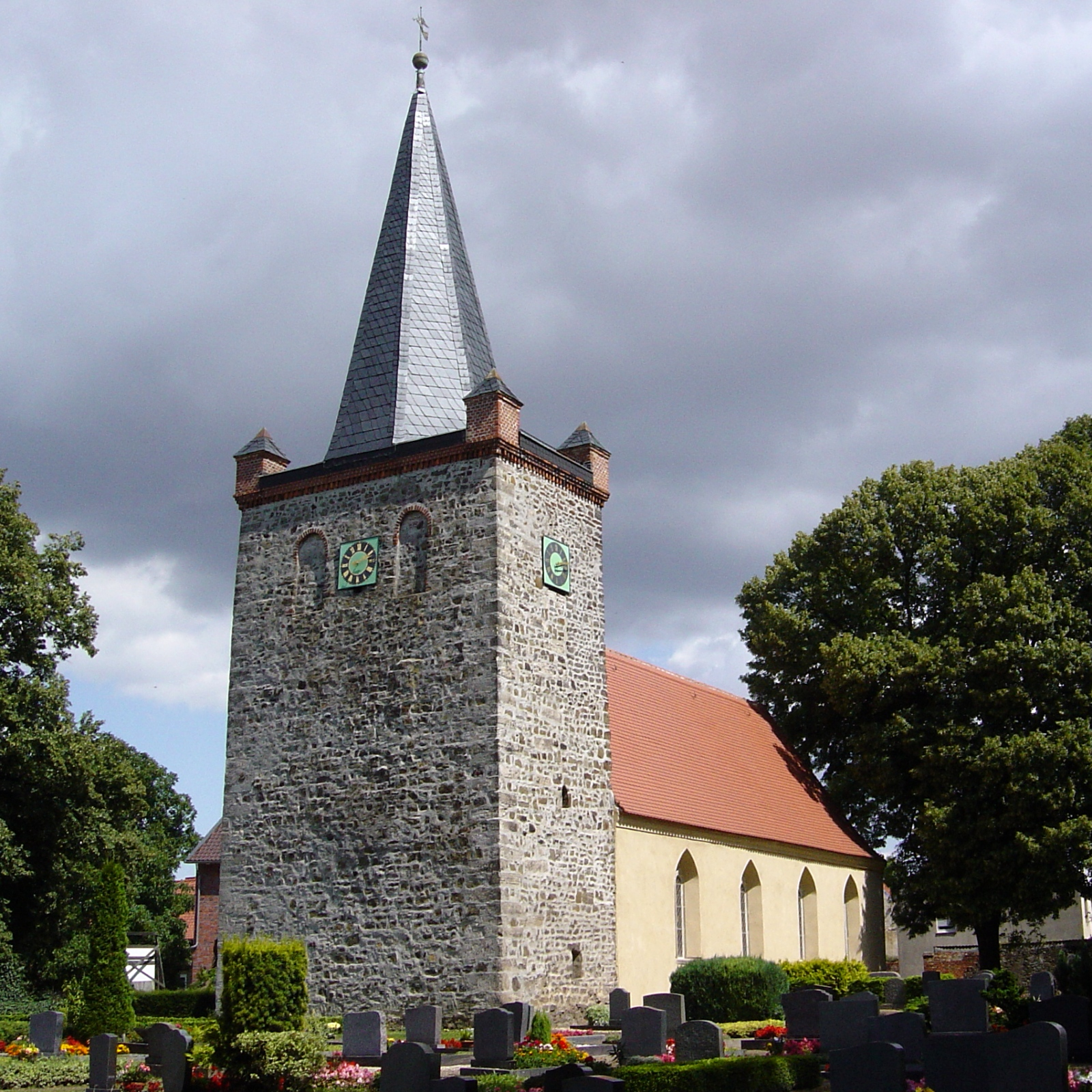 Protestant St. Lawrence church in Hermsdorf (Hohe Börde), Germany